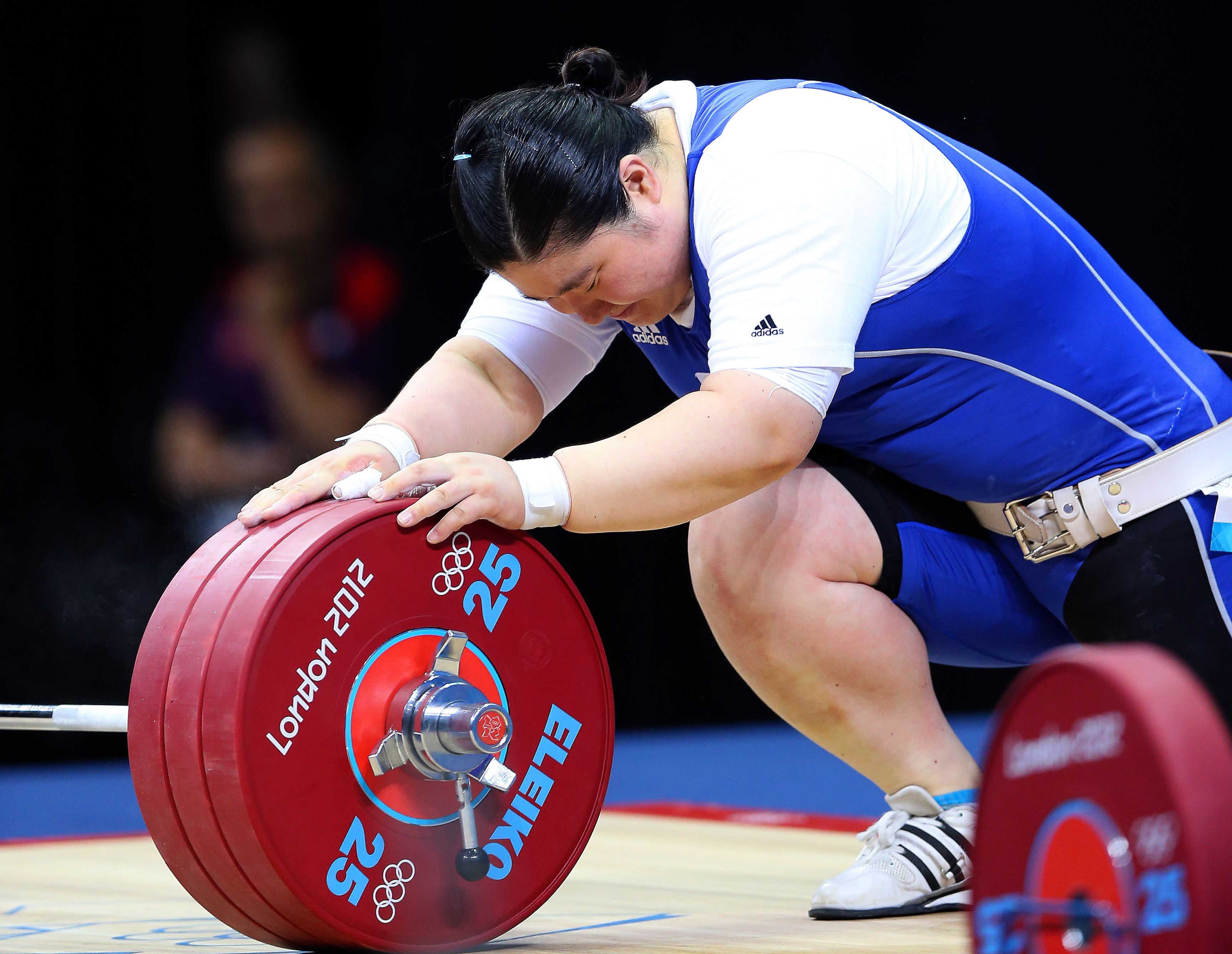 2012 London Olympic Games Mi-Ran Jang of South Korea competes during the women's +75kg event at the London 2012 Olympic Games Weightlifting competition, London, Britain. 2012.08.06. Photo by Korean Olympic Committee Ministry of Culture, Sports and Tourism Korean Culture and Information Service 2012 런던 올림픽 여자 +75kg급에 출전한 장미란 선수 사진제공 - 대한체육회 문화체육관광부 해외문화홍보원